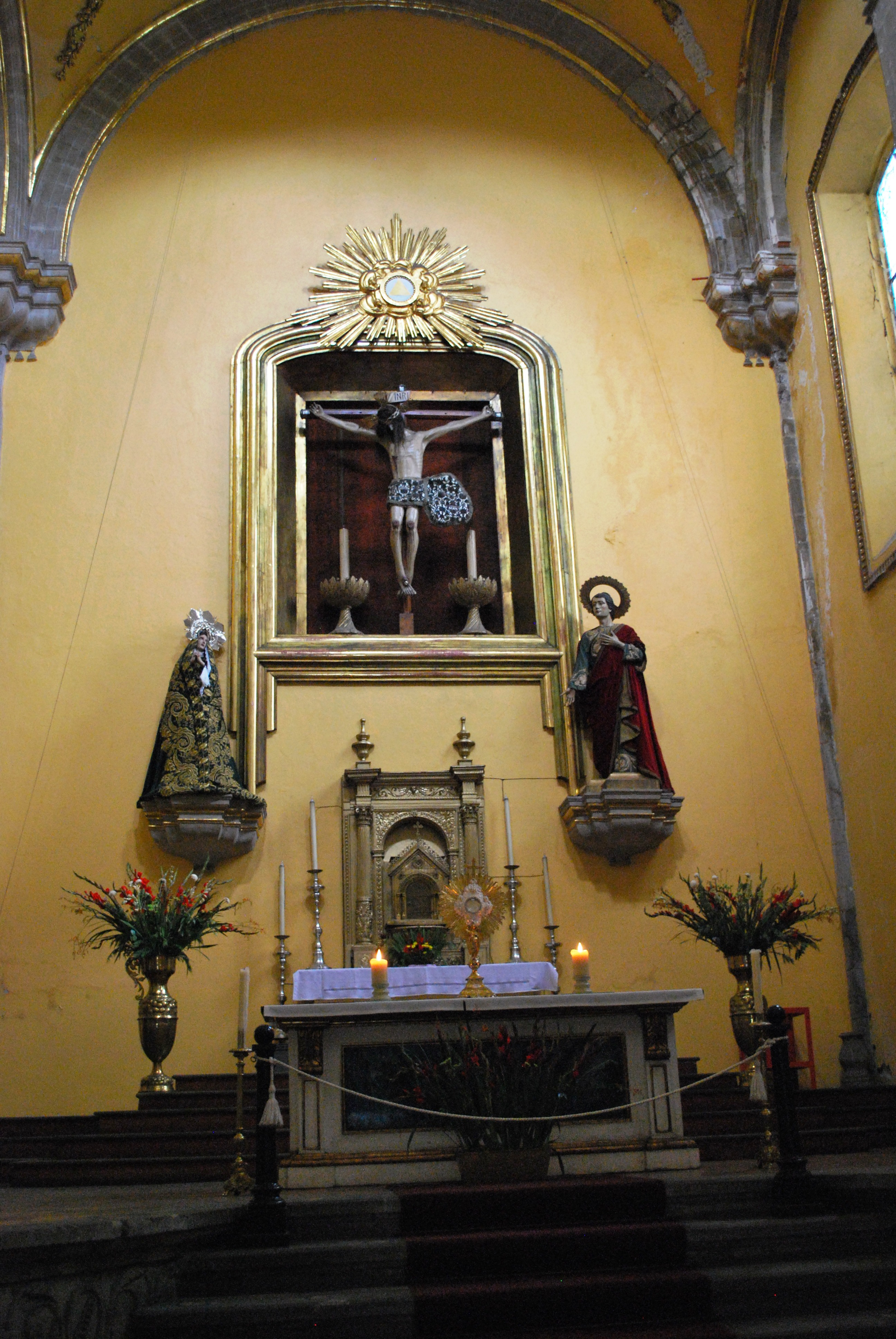 Crucifix in side chapel of the Parish of Santa Vera Cruz located near the Alameda in Mexico City